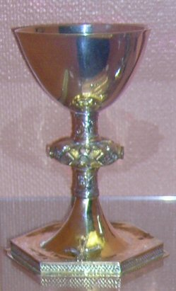 Medieval chalice from Our Lady's church, Trondheim, Norway